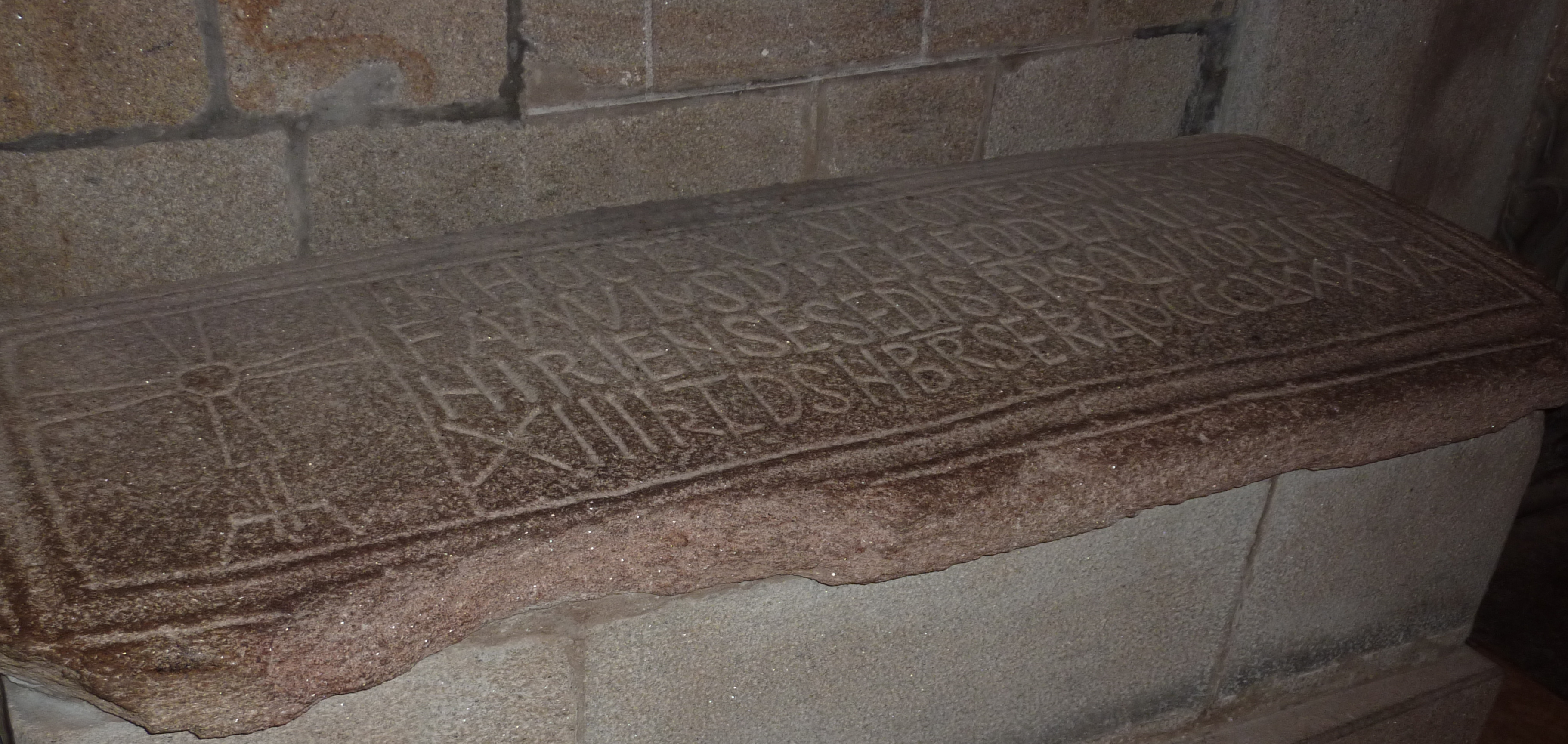 Tombstone of bishop Theodemirus (d. 847 CE), discoverer of the tomb attributed to the apostle Saint James. Cathedral of Santiago de Compostela